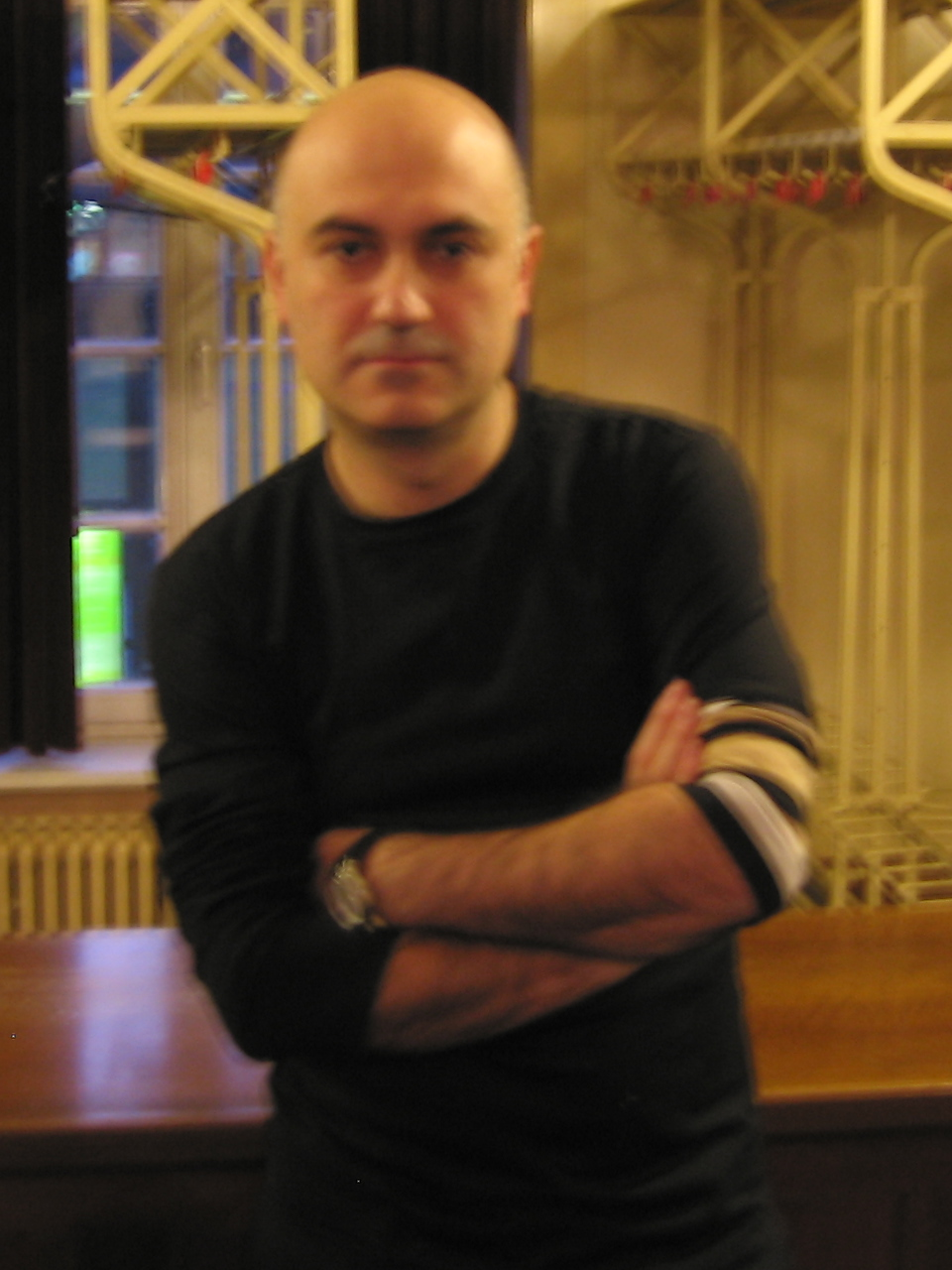 This picture shows opera director Calixto Bieito shortly before the premiere of his staging of Richard Wagner's 1843 opera The Flying Dutchman at the Staatstheater Stuttgart.